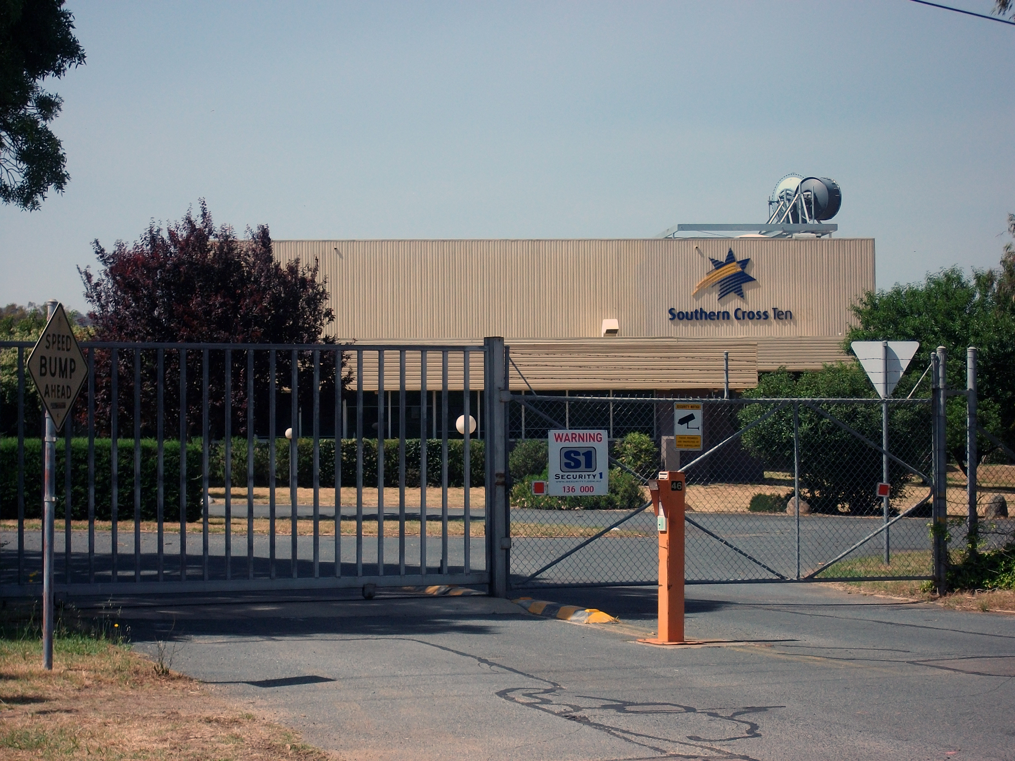 Southern Cross Ten play-out centre in the Canberra suburb of Watson